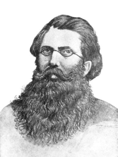 Carlo Cafiero, italian anarchist.